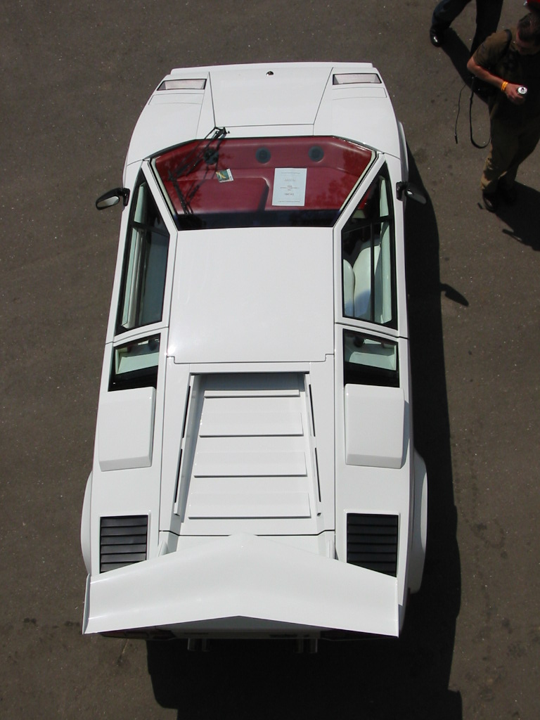 Lamborghini Countach from the top